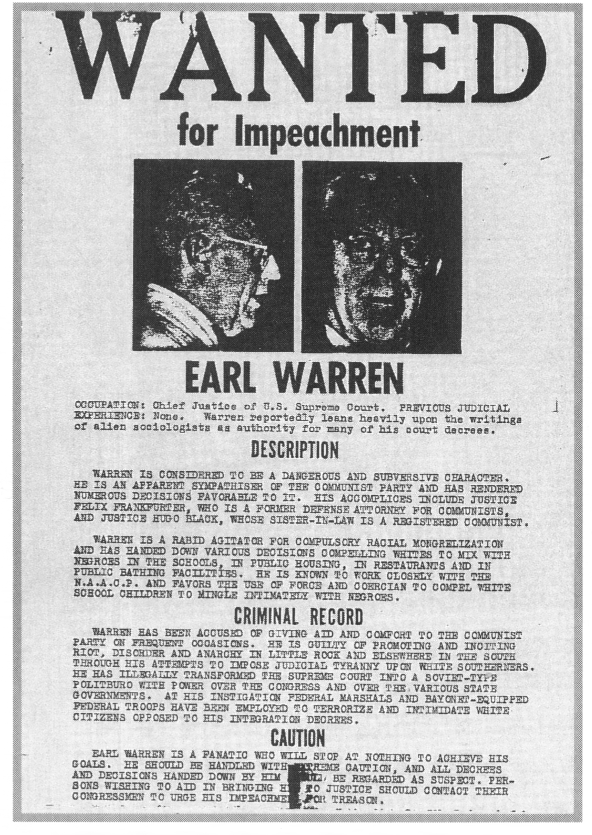 The first call for impeachment of Chief Justice Earl Warren, it was taped to a bulletin board in the 7th and Mission post office in San Francisco, California, United States, and reported to the FBI.